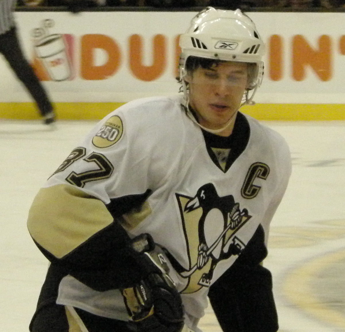 Sidney Crosby, captain of the Pittsburgh Penguins, chasing the puck